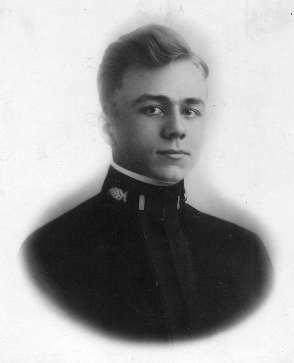 Lieutenant (Junior Grade) Weedon E. Osborne, United States Navy (Dental Corps). Portrait photograph taken circa 1917-1918. Lt(JG) Osborne was posthumously awarded the Medal of Honor and the Distinguished Service Cross for "extraordinary heroism" on 6 June 1918, during the Battle of Belleau Wood.